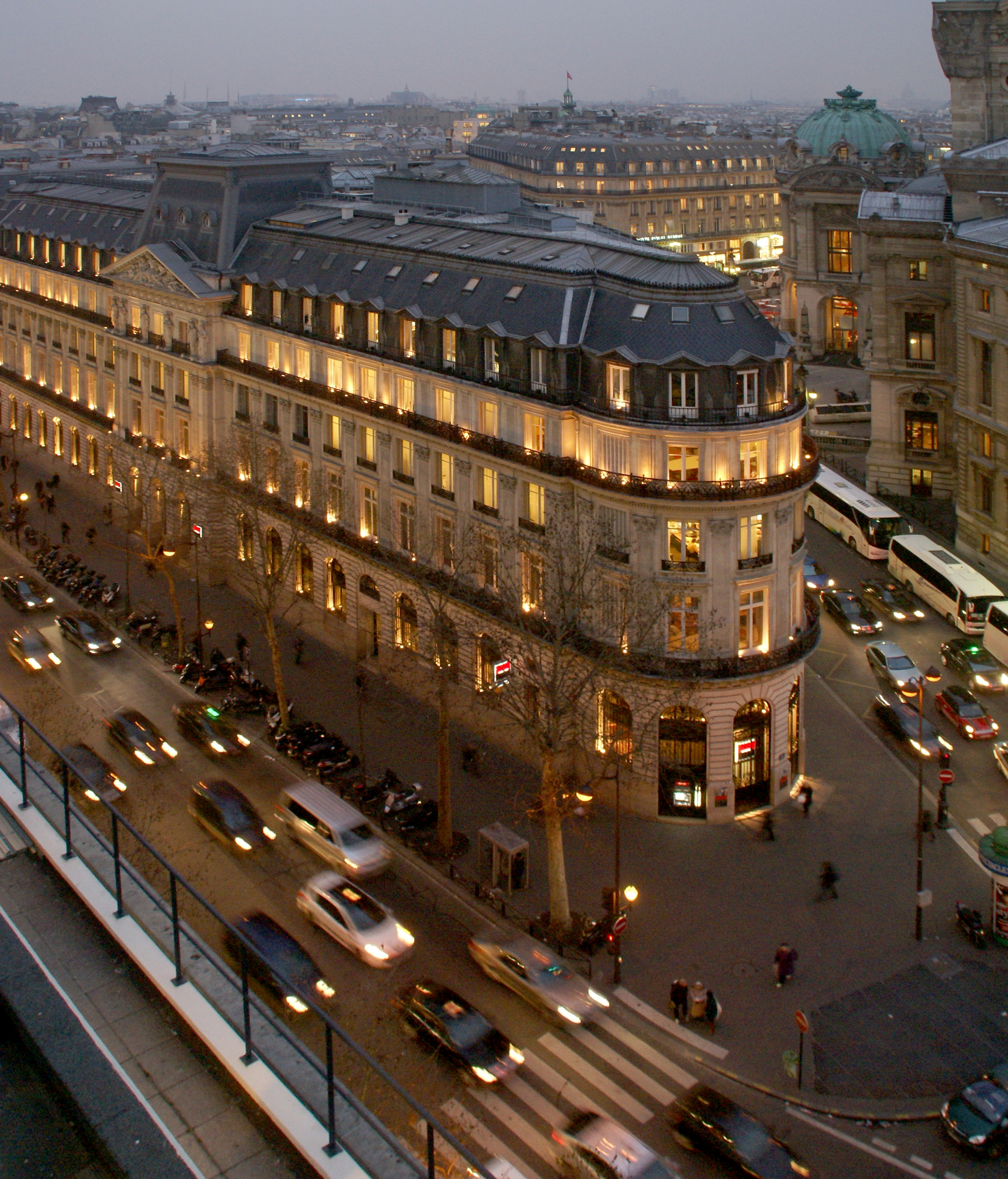 The view from the roof of Galeries Lafayette.